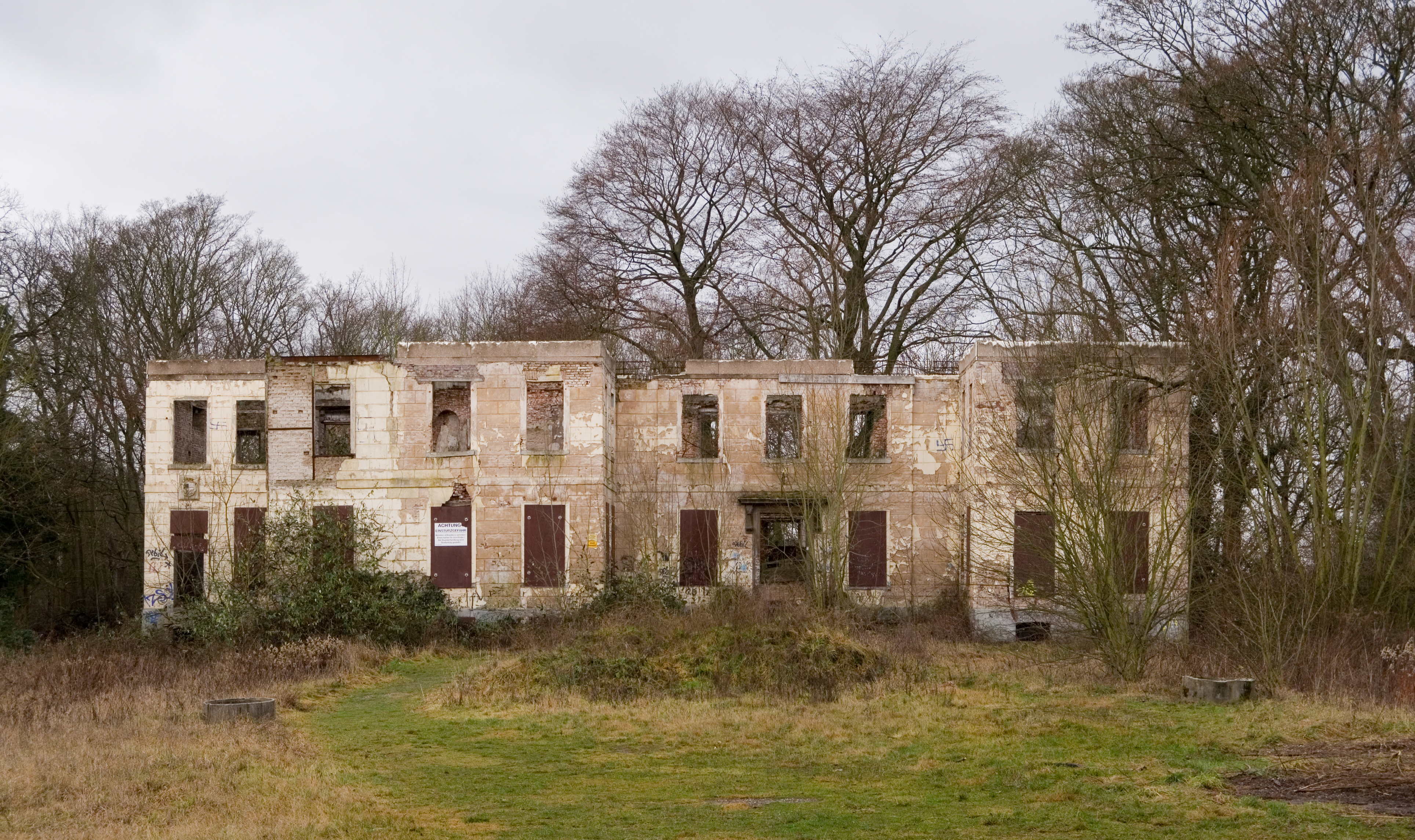 Rheinberg (North Rhine-Westphalia, Germany) – district Budberg – ruin of the former castle Haus Wolfskuhlen This image shows a heritage building in Germany, located in the North Rhine-Westphalian city Rheinberg (no. 70). This photograph was taken with a Nikon D3000